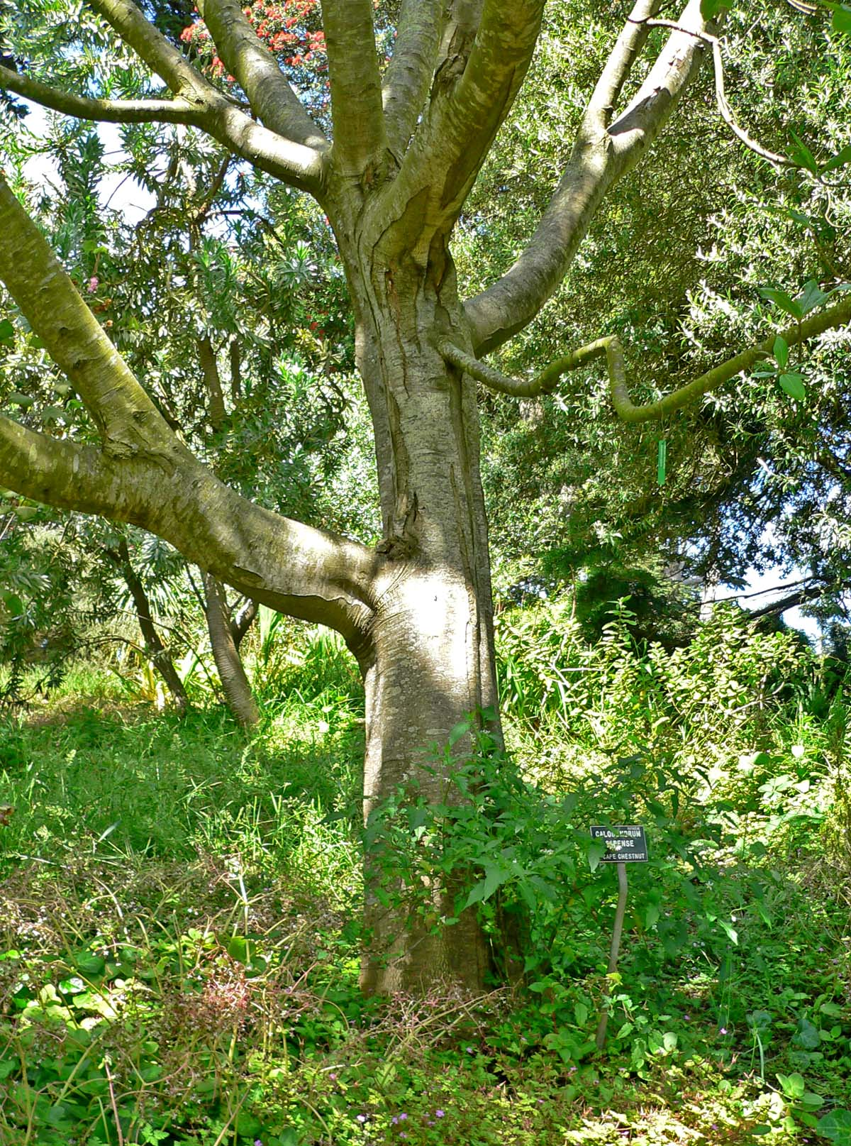 Photo of Calodendrum capense at the San Francisco Botanical Garden